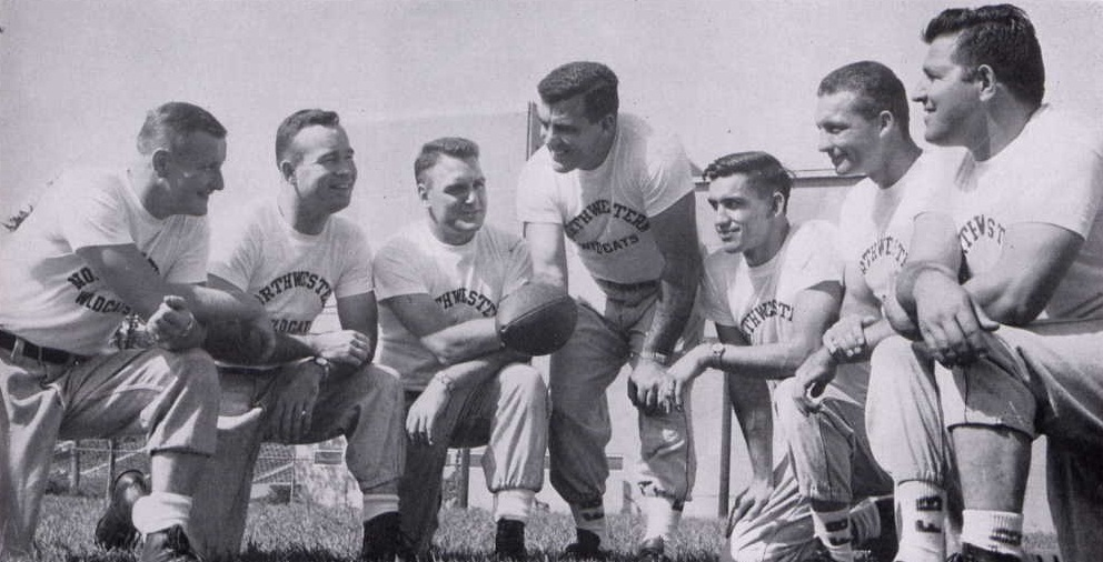 The coaching staff for the 1956 Northwestern Wildcats football team. From left: Bo Schembechler (frosh coach), Paul Shoults (back), Dale Samuels (asst. frosh), Ara Parseghian (head coach), Doc Urich (line), Bruce Betty (tackle), and Alex Agase (defensive line).